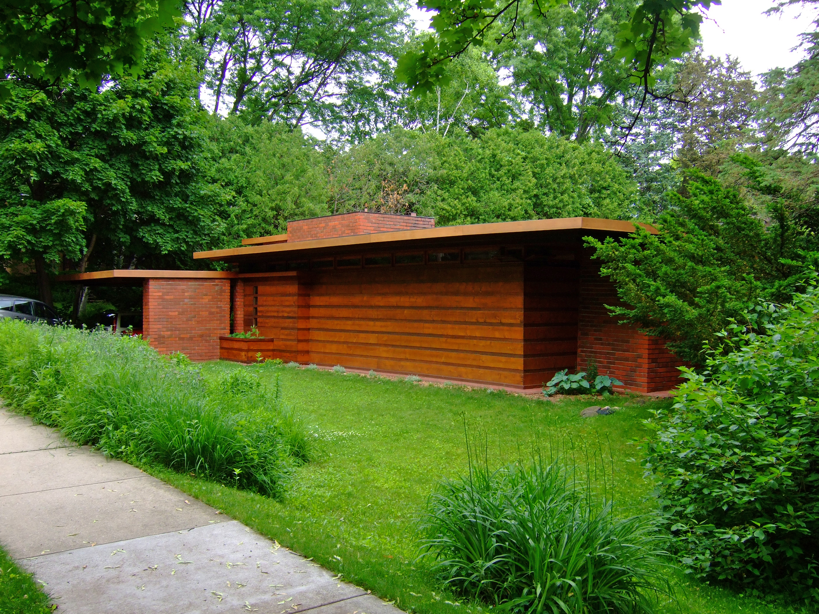 Herbert and Katherine Jacobs First House, commonly referred to as Jacobs I, is a single family home located at 441 Toepfer Avenue in Madison, Wisconsin. Designed by noted American architect Frank Lloyd Wright, it was constructed in 1937 and is generally considered to be the first Usonian home.